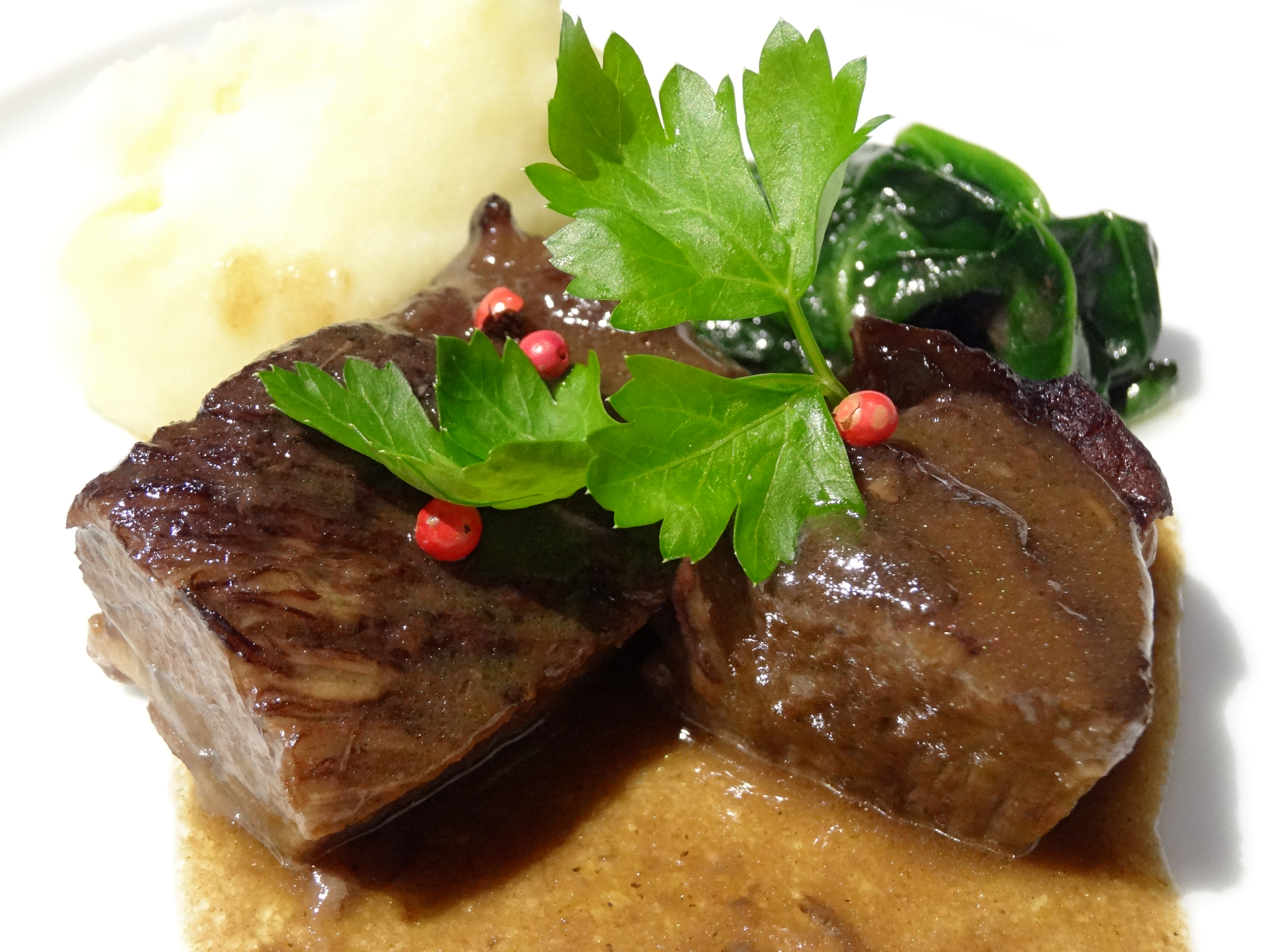 Nishimuraya Hotel Shogetsutei in Kinosaki Onsen town, Toyooka, Hyogo prefecture, Japan.